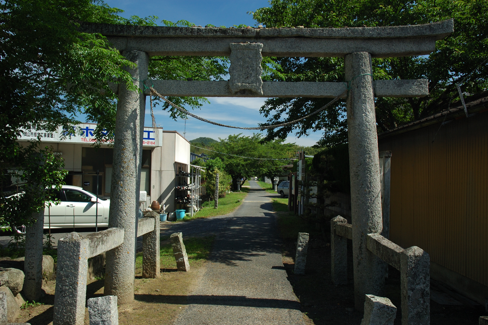 Stone torii gate at Ashimori Hachimangu shrine (Japan's national important cultural property), Okayama Pref., Japan. This is the oldest extant torii with an inscription bearing the date 1361.